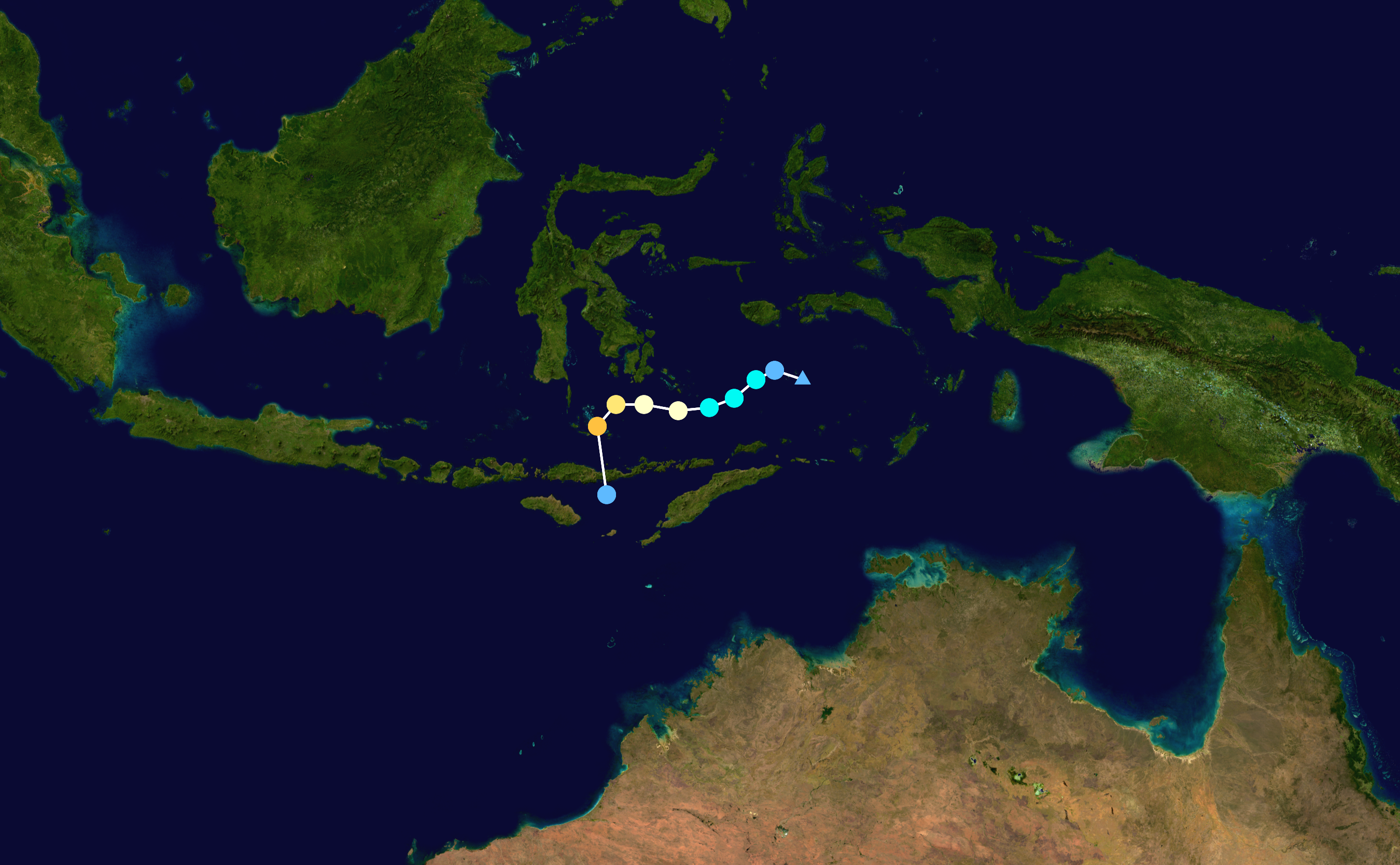 Track map of Cyclone Flores of the 1972–73 Australian region cyclone season. The points show the location of the storm at 6-hour intervals. The color represents the storm's maximum sustained wind speeds as classified in the Saffir-Simpson Hurricane Scale (see below), and the shape of the data points represent the nature of the storm, according to the legend below. Saffir–Simpson scale Tropical depression≤38 mph≤62 km/h Category 3111–129 mph178–208 km/h Tropical storm39–73 mph63–118 km/h Category 4130–156 mph209–251 km/h Category 174–95 mph119–153 km/h Category 5≥157 mph≥252 km/h Category 296–110 mph154–177 km/h Unknown Storm typeTropical cycloneSubtropical cycloneExtratropical cyclone / Remnant low / Tropical disturbance